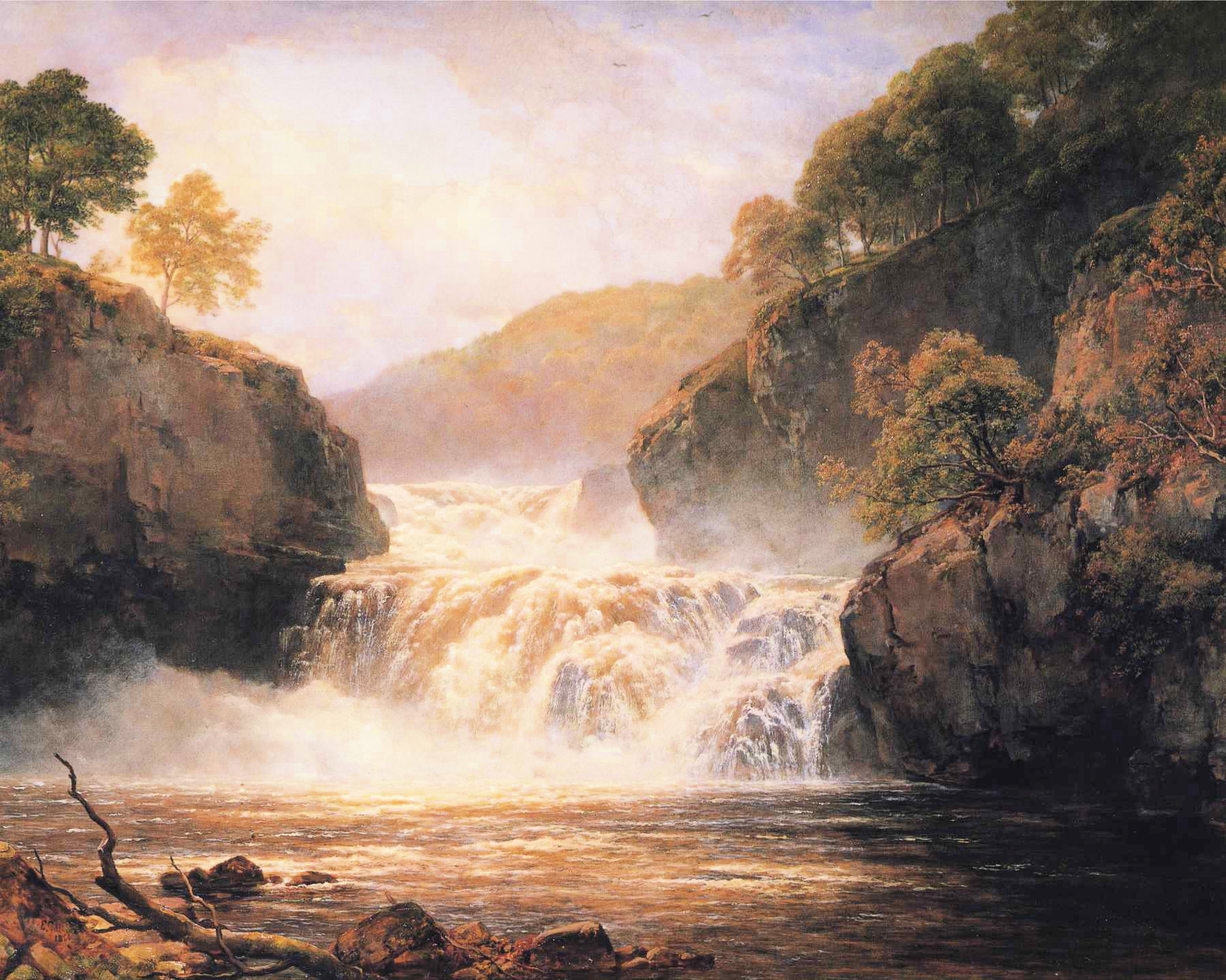 Falls in the Clyde Corry Lynn